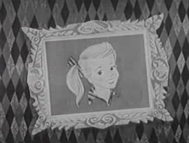 Screenshot from the 1955 TV series Meet Corliss Archer